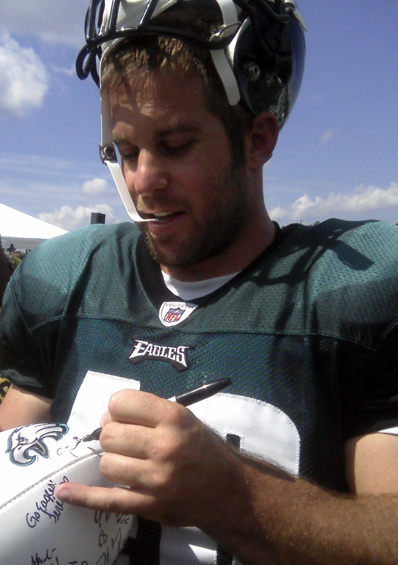 Jon Dorenbos at Eagles training camp in 2011